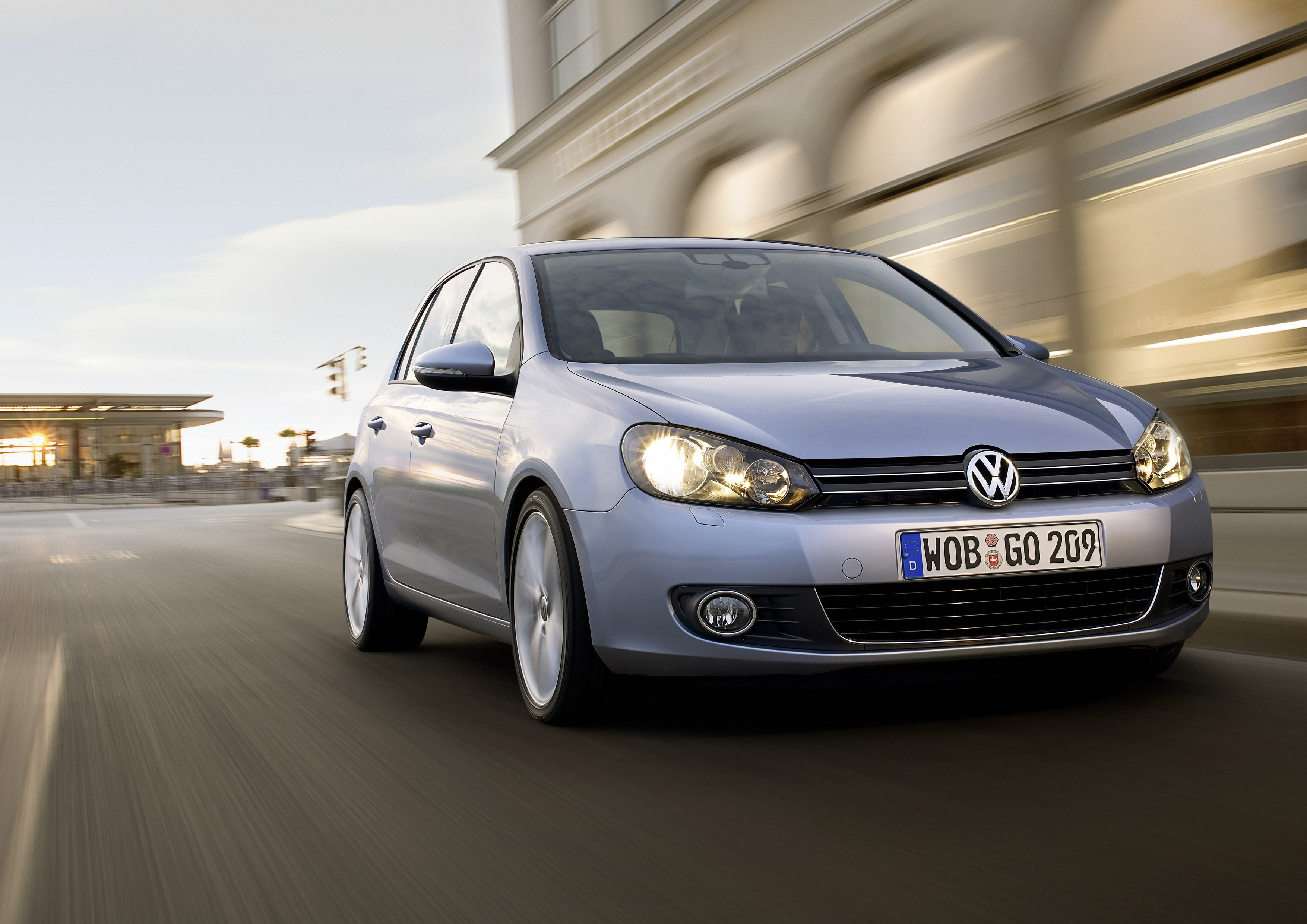 Volkswagen Golf Mk VI